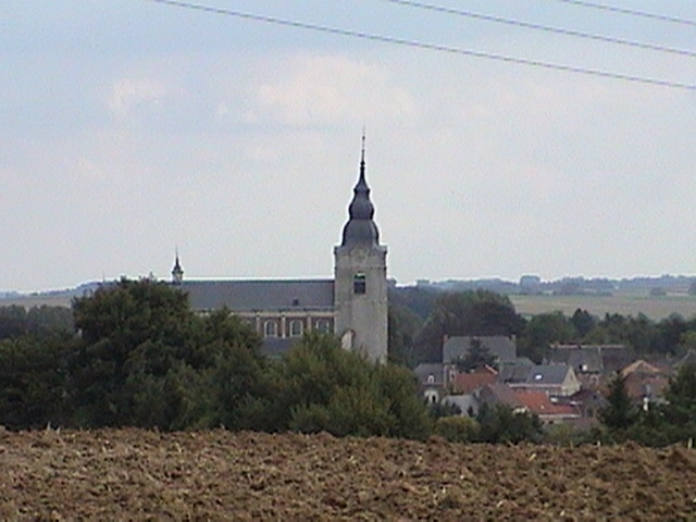 Hoegaarden, a town in Vlaams-Brabant (Flemish Brabant) in Belgium. Shows monumental Saint Gorgon's Church in 'Rococo' or 'Louis XV' style.